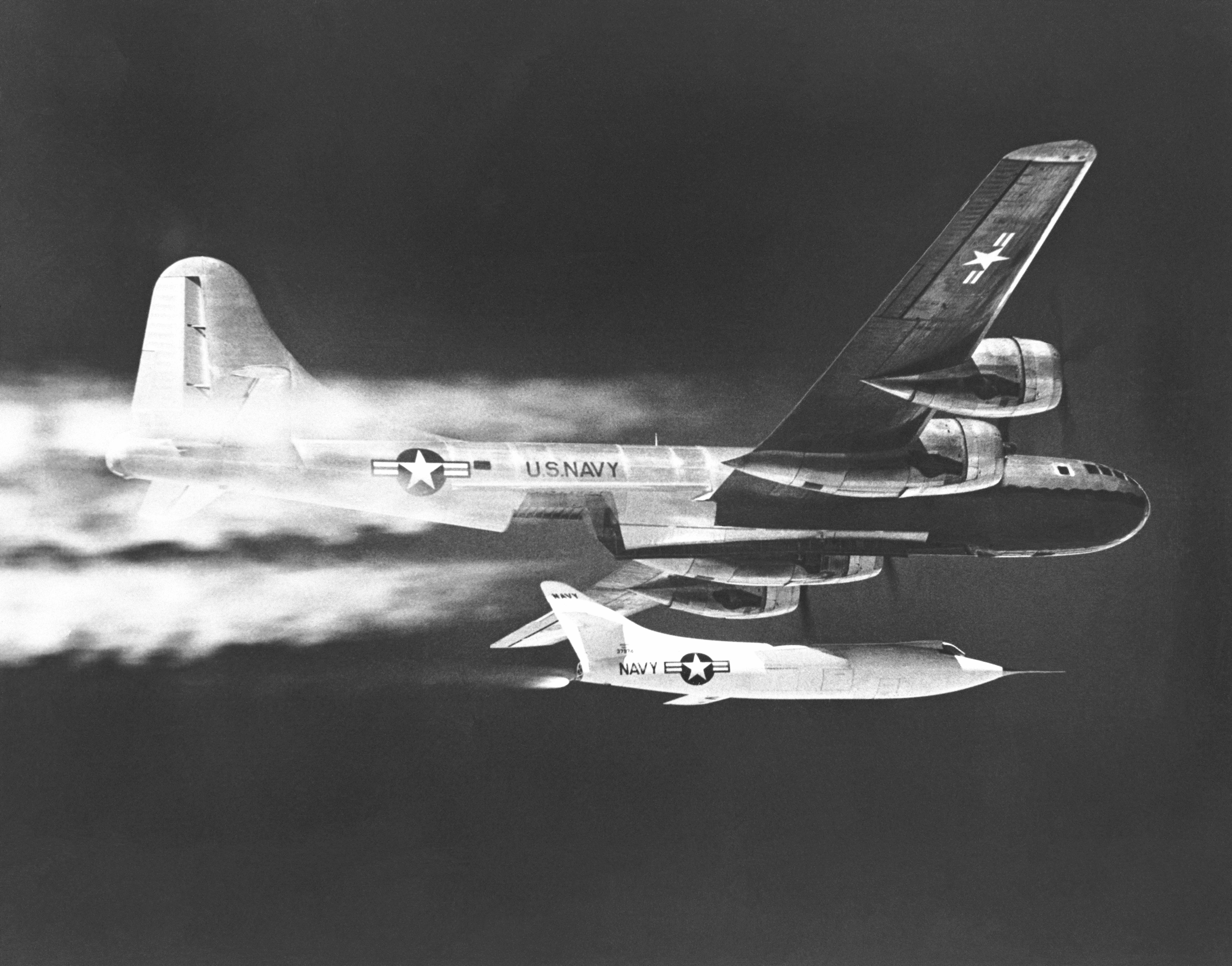 The D-558-2 #2 is launched from the P2B-1 in this 1956 NACA High-Speed Flight Station photograph. The D-558 Phase Two aircraft was quite different from its Phase One predecessor, the Skystreak. German wartime aeronautical research records, reviewed in 1945 by Douglas Aircraft Company personnel, pointed to many advantages gained from incorporating sweptback wing design into future research aircraft. These findings along with wind tunnel studies performed by the National Advisory Committee for Aeronautics (NACA) at Langley Memorial Aeronautical Laboratory, resulted in the modification of the straight wing D-558-1 Skystreak contract to include investigation of sweptback wings. Three redesigned aircraft were built by Douglas Aircraft Company under a contract from the Navy Bureau of Aeronautics and named D-558-2 Skyrocket. Originally all three were designed for ground take-off and used mixed power propulsion systems, consisting of a turbojet engine for take-off and a rocket engine, for greater speed in flight. The early flight tests were made using only the turbojet engine with the rocket engines added, when available. As the flight program evolved, only one D-558-2 ended-up powered by a mixed rocket and turbo-jet propulsion system. From the experience gained during the X-1 rocket program and from Skyrocket mixed propulsion flights, the Navy and the NACA proceeded to have all three of the D-558-2 aircraft modified for air launching from a Navy-operated P2B-1 Superfortress (Navy version of the Air Force B-29), later becoming NACA 137. Although not designated an "X vehicle," the D-558-2 was essentially an X-vehicle aircraft in design and function, and contributed much to aeronautics research.